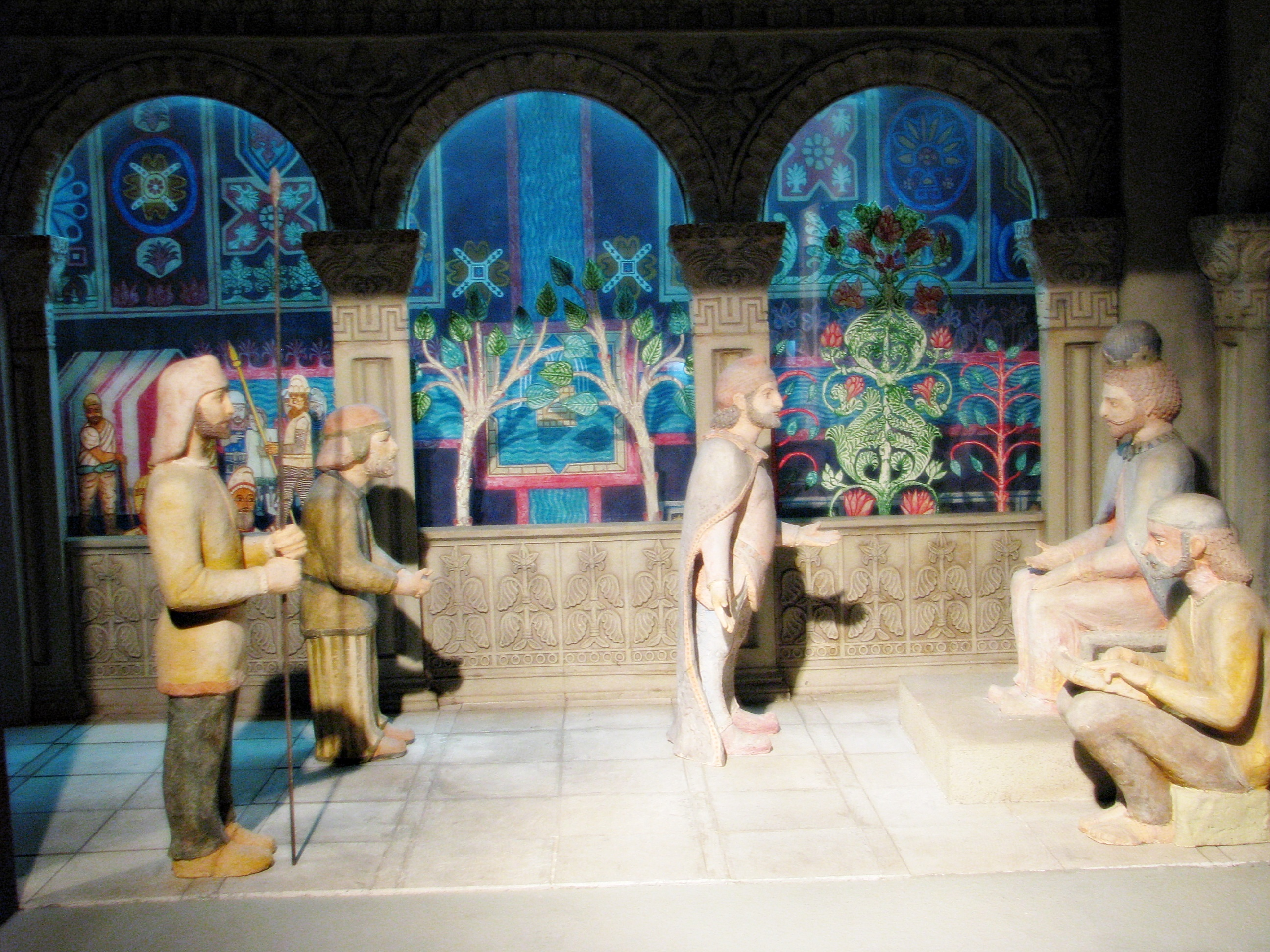 An Exhibit at the Diaspora Museum, Tel Aviv - Beit Hatefutsot. The note below the exhibit says the following: Surrounded by his servants and guards the Exilarch Huna receives the elders of the community in his magnificent Persian-style villa. In the background, a man is being brought to trial.